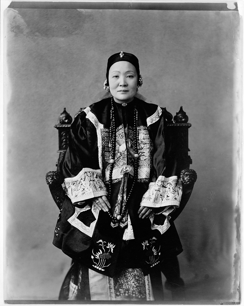 Mme Wu Tingfang (Ho Miuling) in elaborate dress, photographed by Frances Benjamin Johnston, from the Frances Benjamin Johnston Collection, Library of Congress.